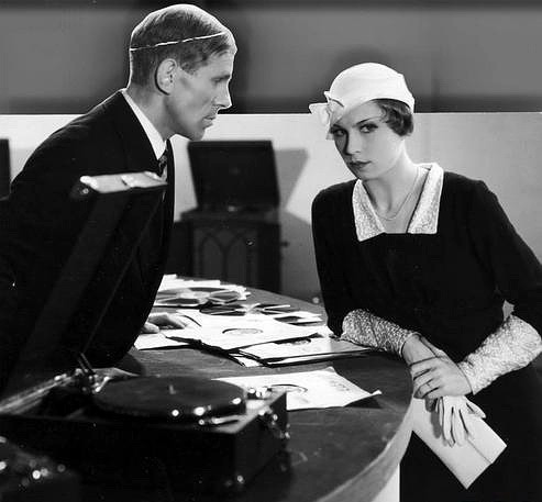 Film "Szpieg w masce" (1933): Zdzisław Karczewski (as seller Albert), Lena Żelichowska (Polish counter-intelligence agent).